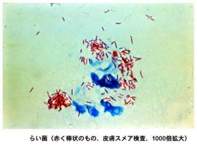 A photograph of Mycobacterium leprae. Taken from the above URL with the permission of Dr. Norihisa Ishii at the Infectious Disease Surveillance Center, Japan (March 19, 2007).